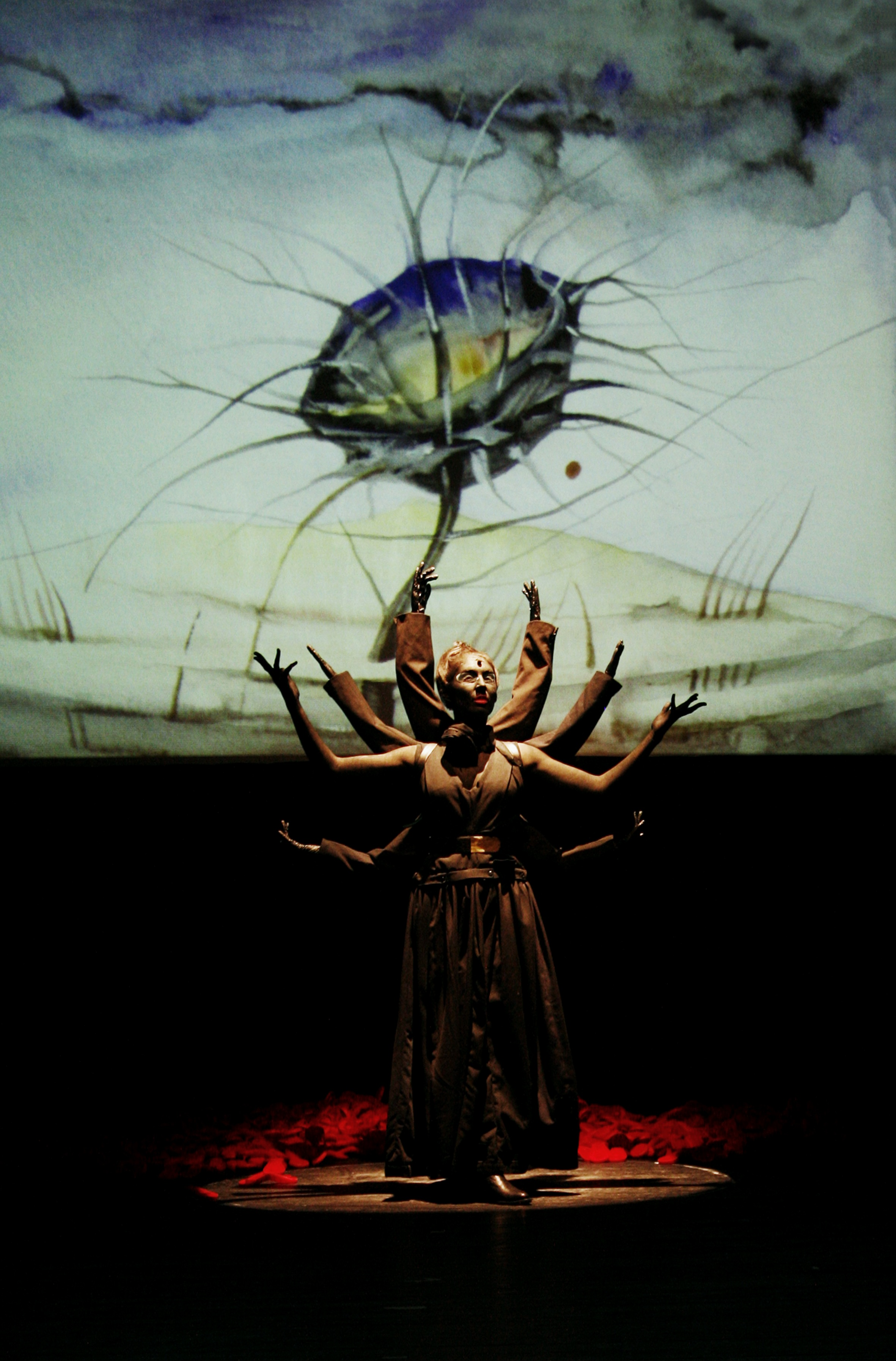 Von Krahl Theatre: The Magic flute. Directed by Peeter Jalakas Photo by Alan Proosa. Video- and sounddesign by V. Hyv�nen